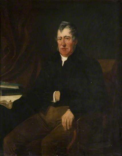 Portrait of Charles William Bigge (1773–1849), English merchant and banker.